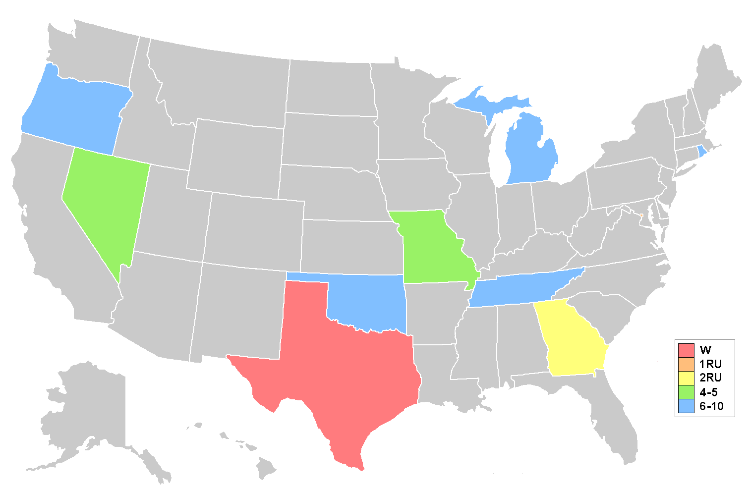 Map showing placements at the Miss USA 2001 pageant. Key on graphic shows colour coding for break down of placements.